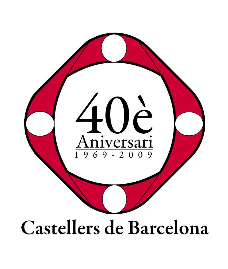 MEMORIAL logo of the 40th anniversary of the Barcelona Towers